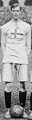 Swedish football goalkeeper Robert Zander in 1919. In lineup before a game against Netherlands, 24th of August.